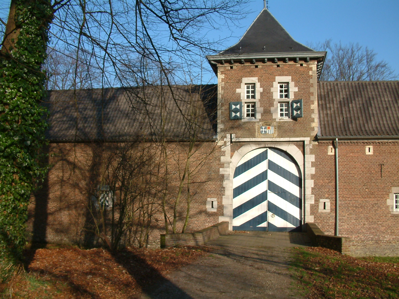 Castle Wolfrath near Holtum, The Netherlands